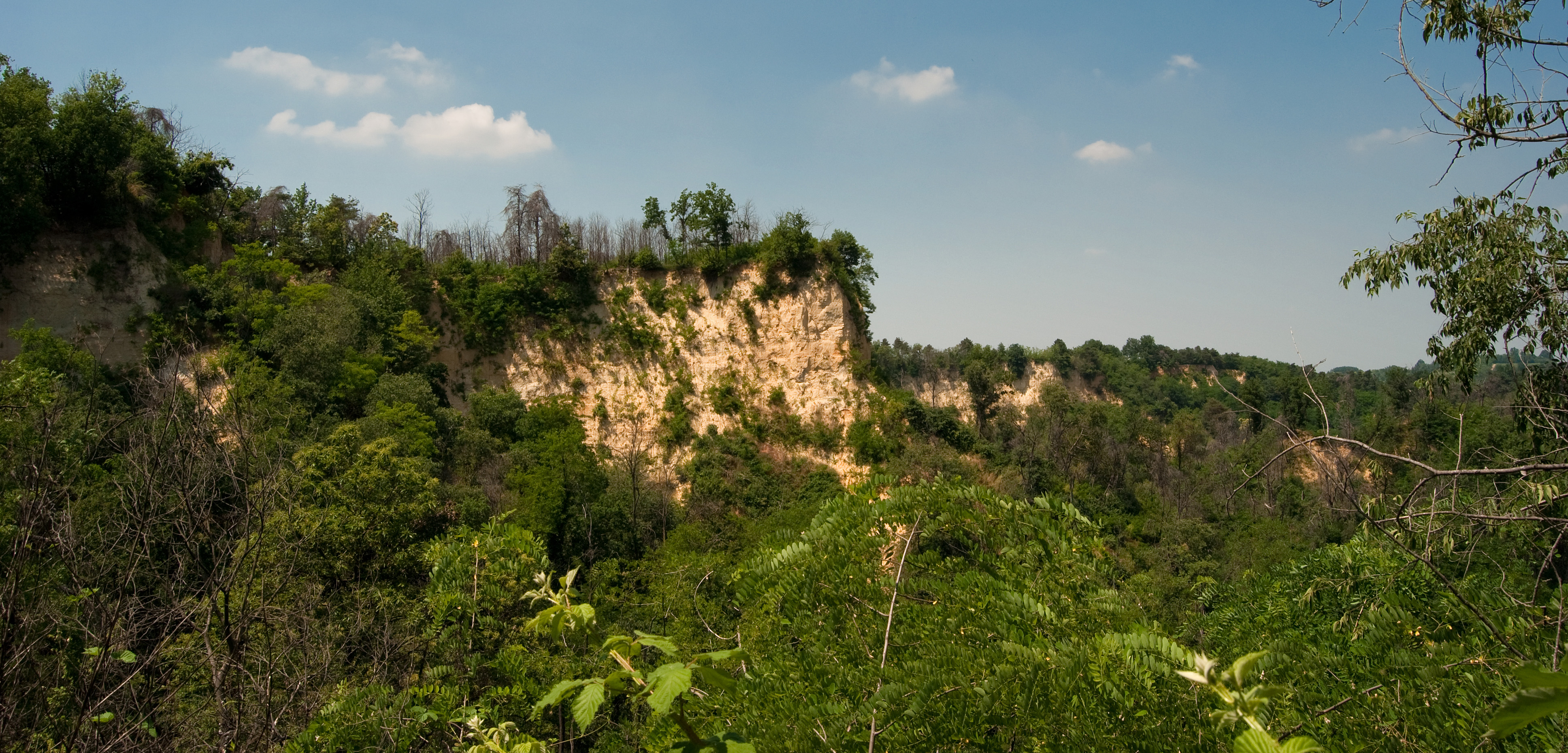 The "Rocche del Roero" in summer, photo taken in the town of Baldissero d'Alba (Piedmont, Italy)